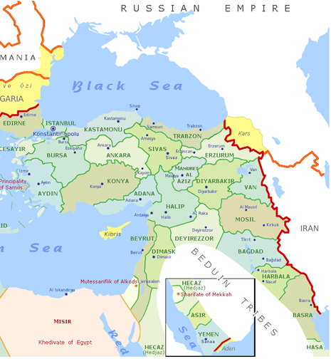 This is a part of a Wikicommons map I have cut in order to use it in the french article Histoire de l'Irak